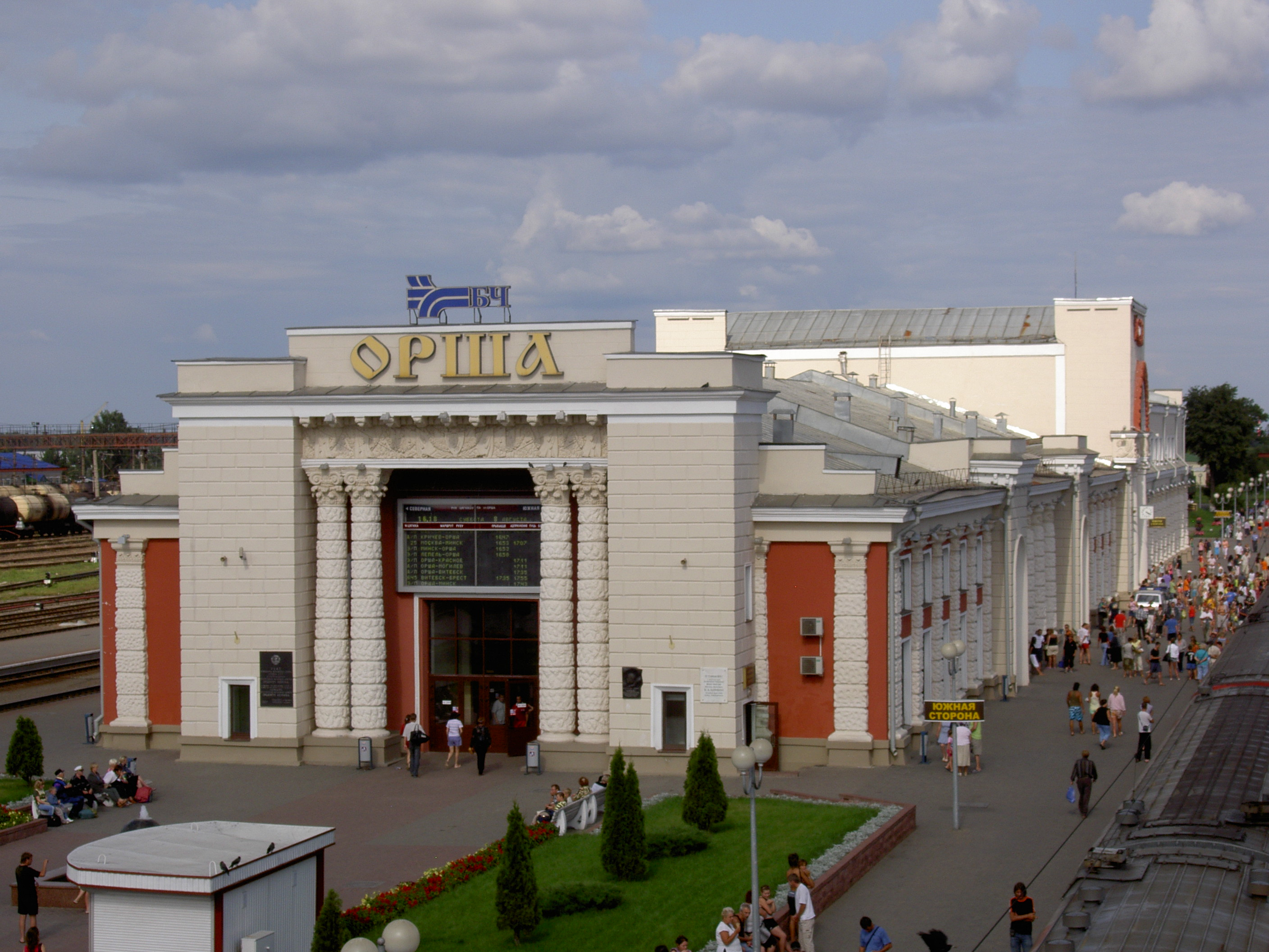 Orsha station